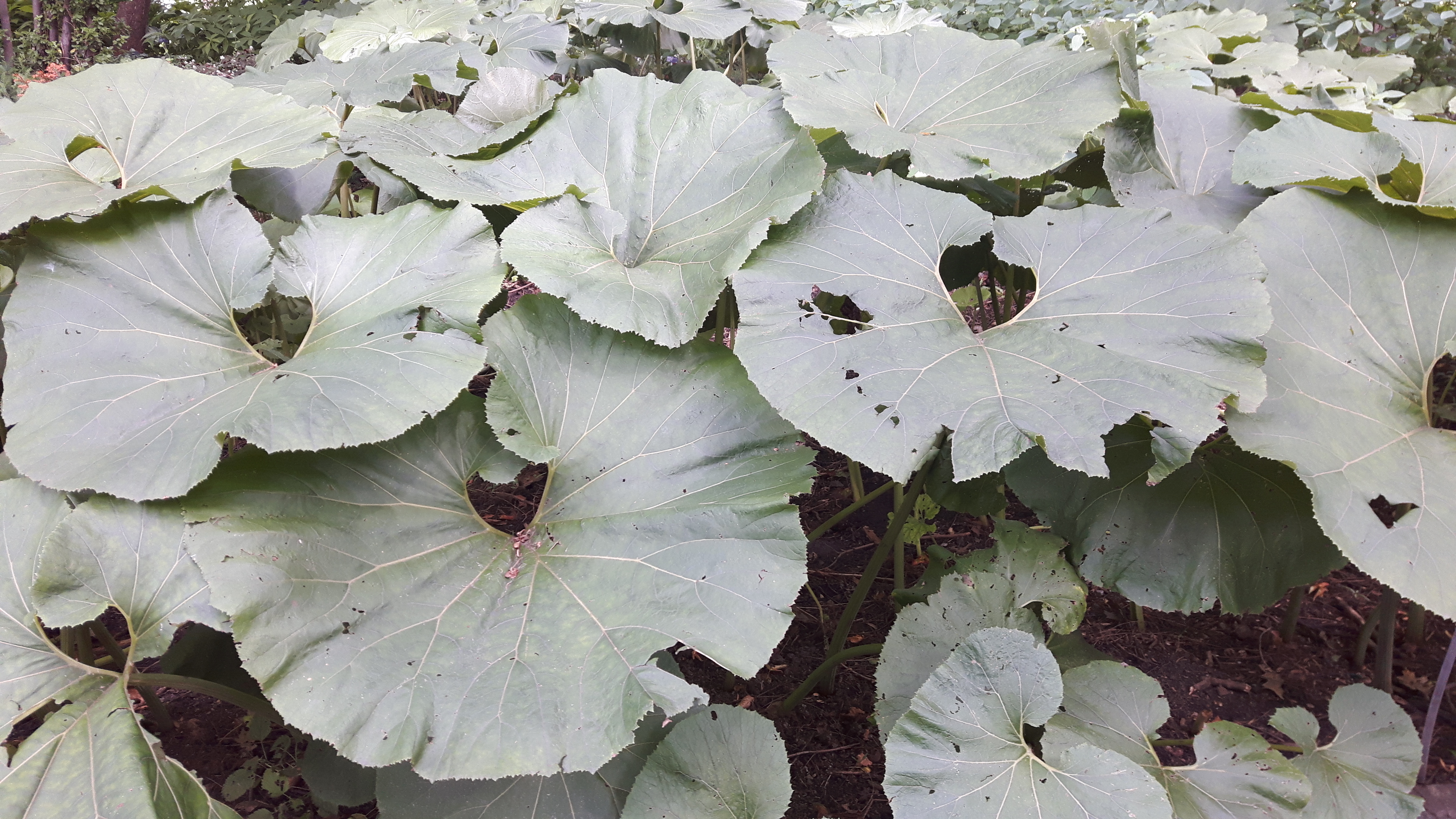 Petasites japonicus, Montreal Botanical Garden.